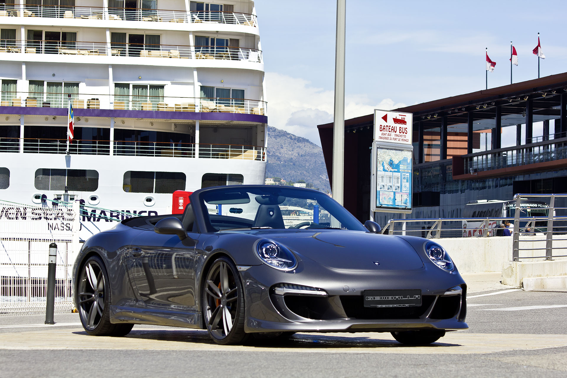 Picture was shot in Monaco at the harbour